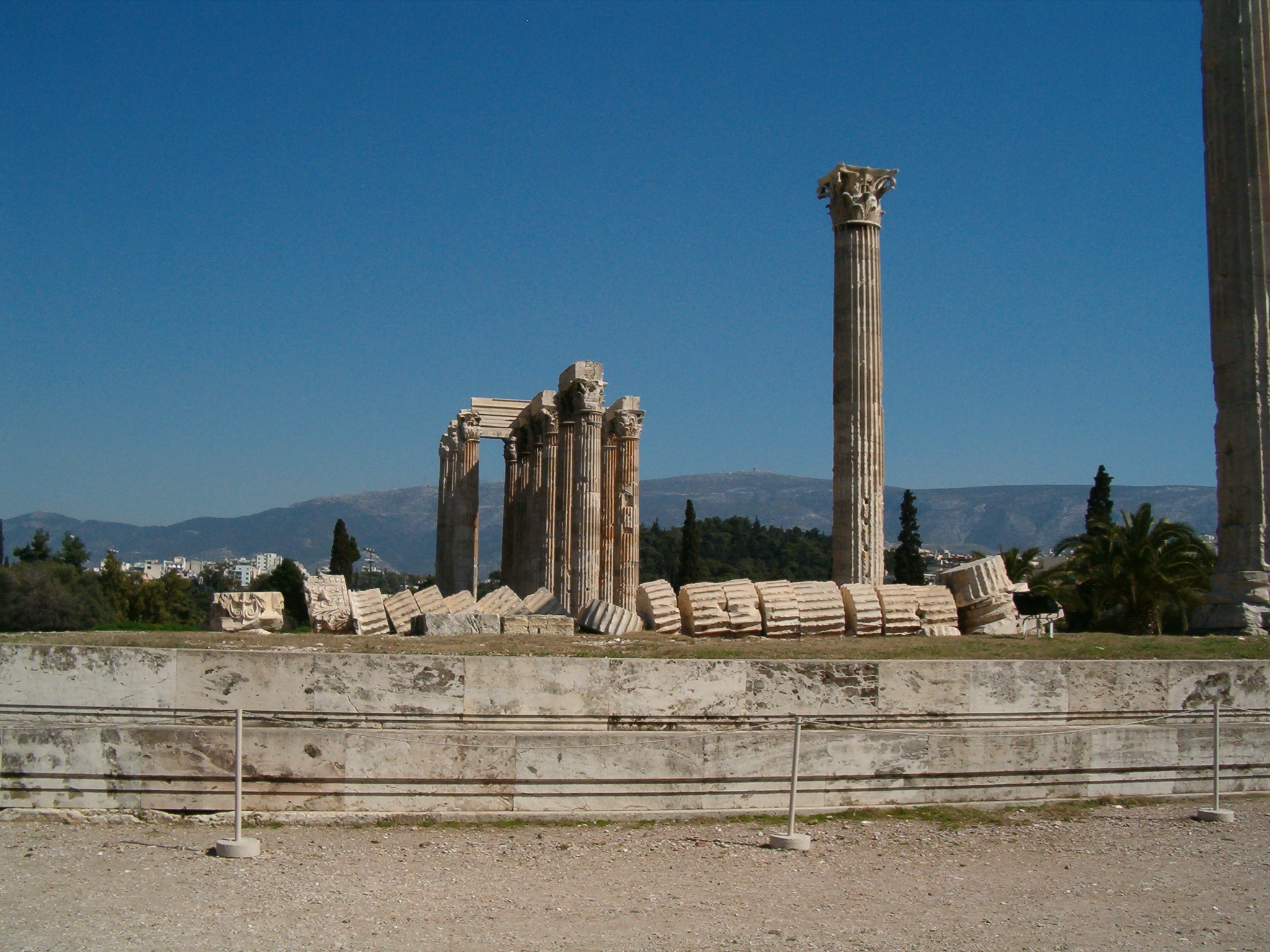 Temple of Olympian Zeus in Athens